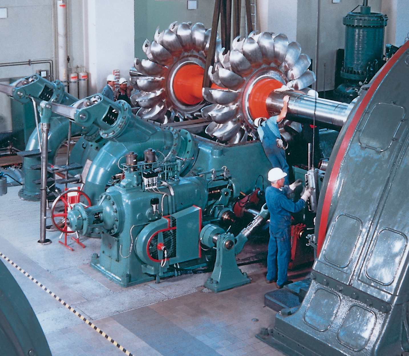 Assembly of a Pelton turbine in the Walchensee Power Plant, Germany